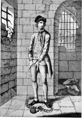 JACK SHEPPARD IN THE STONE ROOM IN NEWGATE